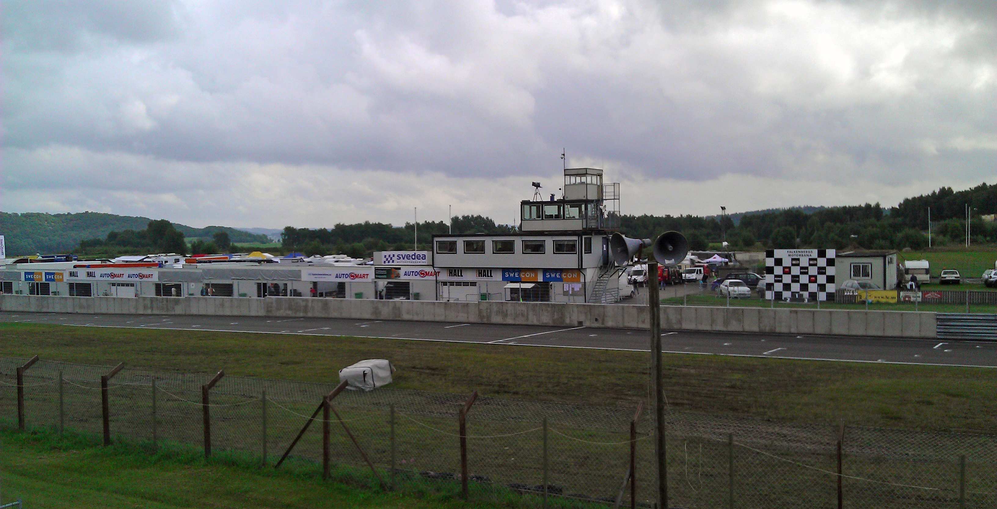 The control tower and parts of the pitlane at Falkenbergs Motorbana in 2011.